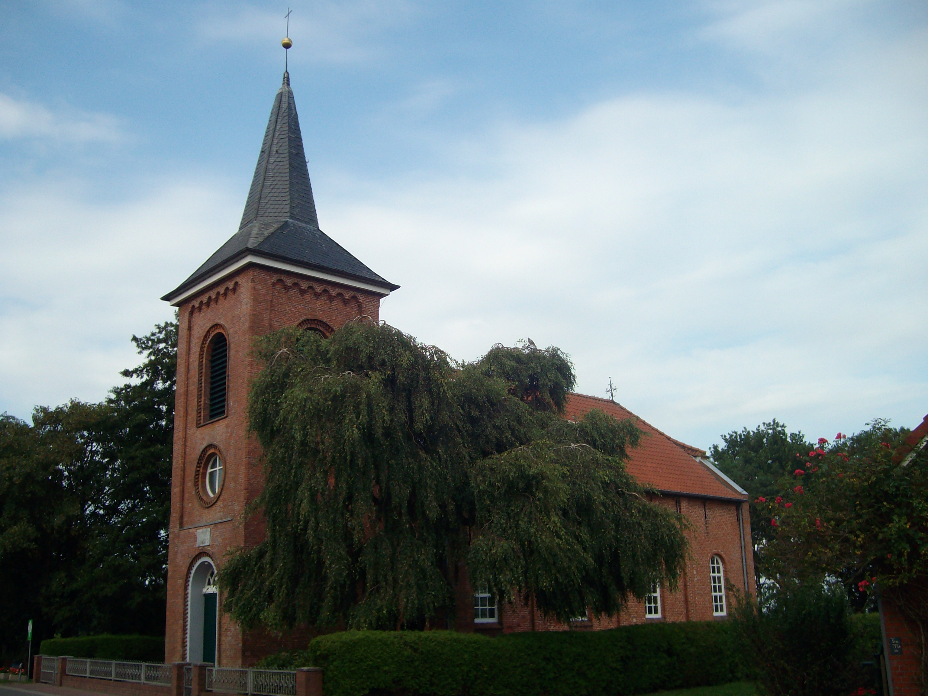 Historic church in Weenermoor, district of Leer, East Frisia, Germany